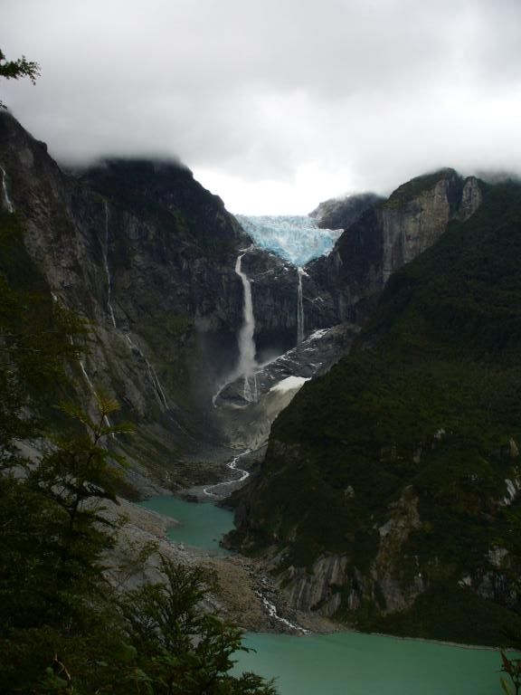 Queulat Hanging Glacier, Queulat National Park, of southern Chile.